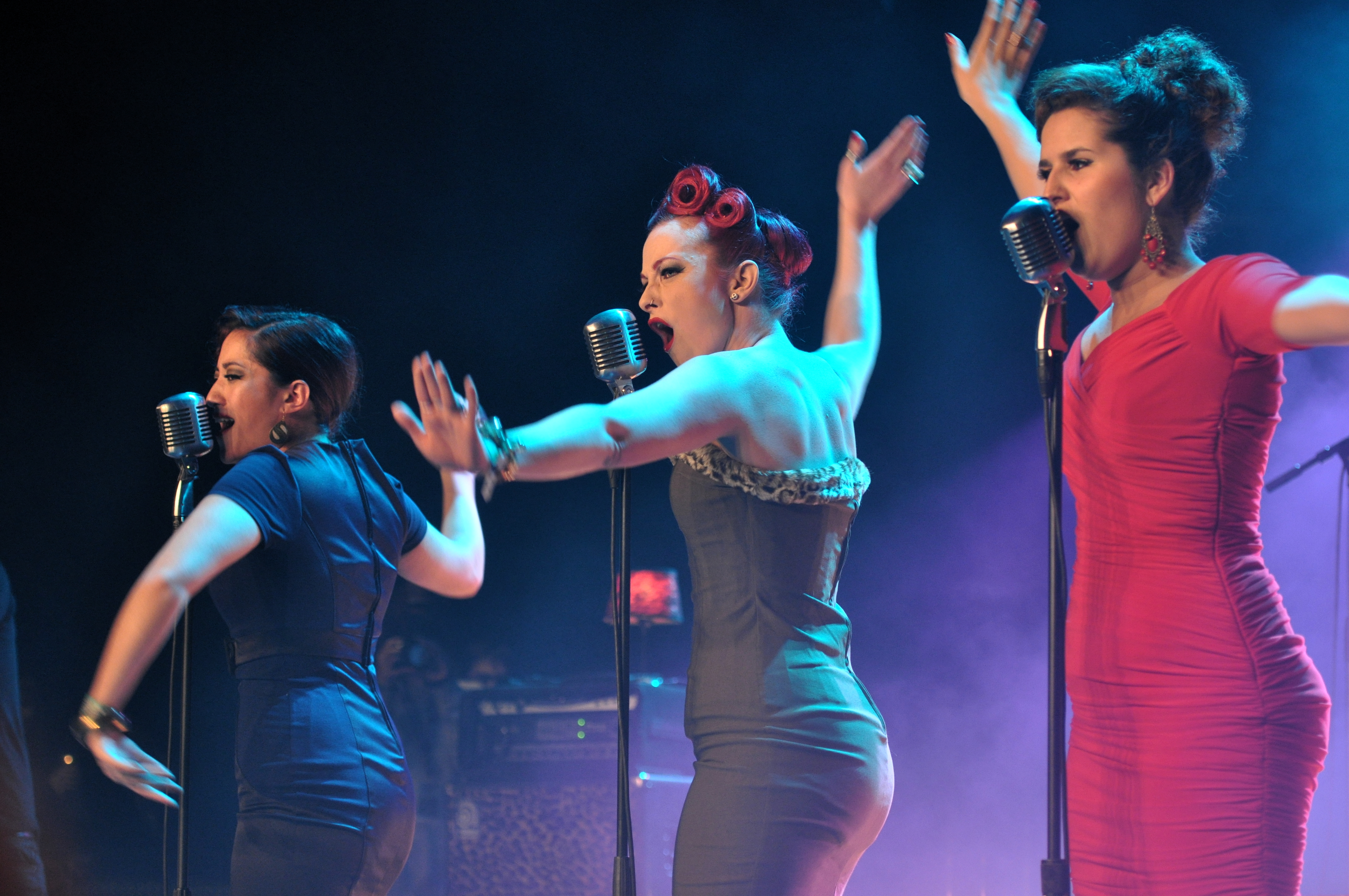 Liptease and the Backstreet Crackbangers at Paaspop 2013